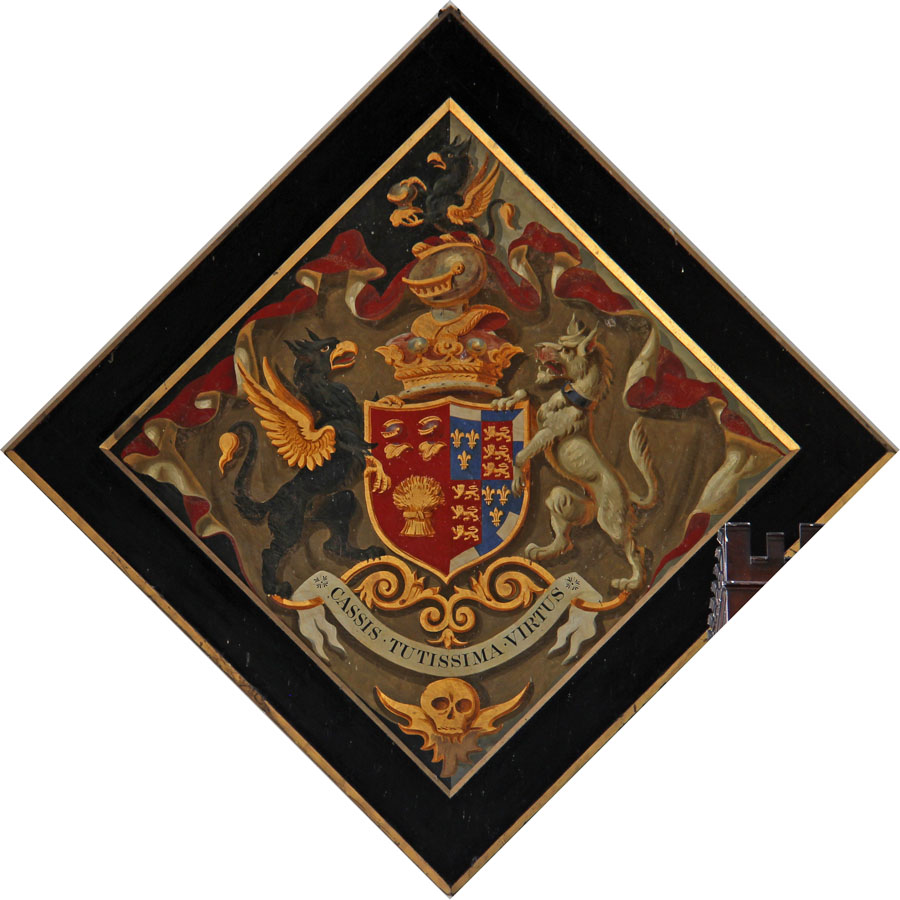 St Martin of Tours, Houghton - Hatchment. Cholmondley impaling Somerset (Duke of Beaufort). Arms of George Horatio Cholmondeley, 2nd Marquess of Cholmondeley (1792- 1870), who married secondly Lady Susan Caroline Somerset, fourth daughter of Henry Charles Somerset, 6th Duke of Beaufort.